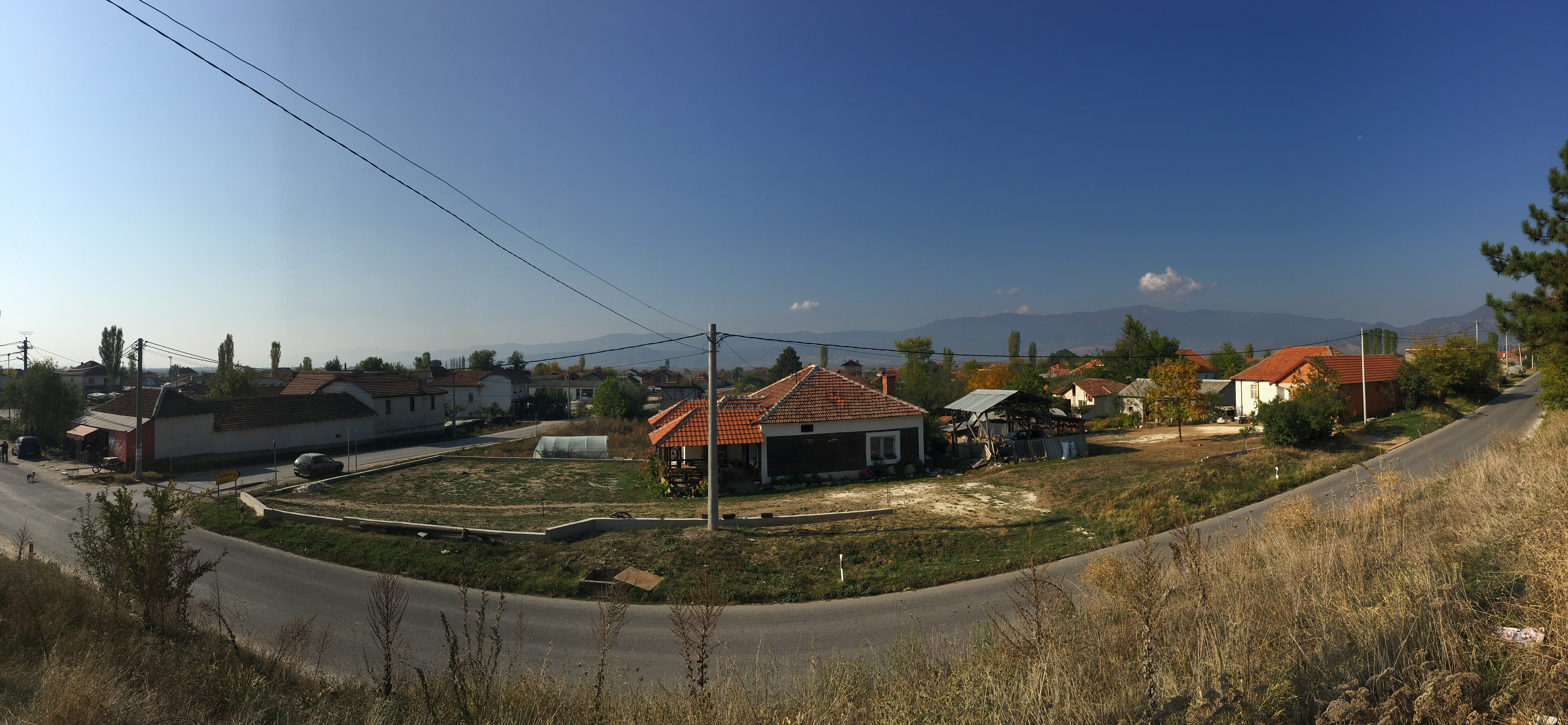 A panoramic view of the village of Ropotovo